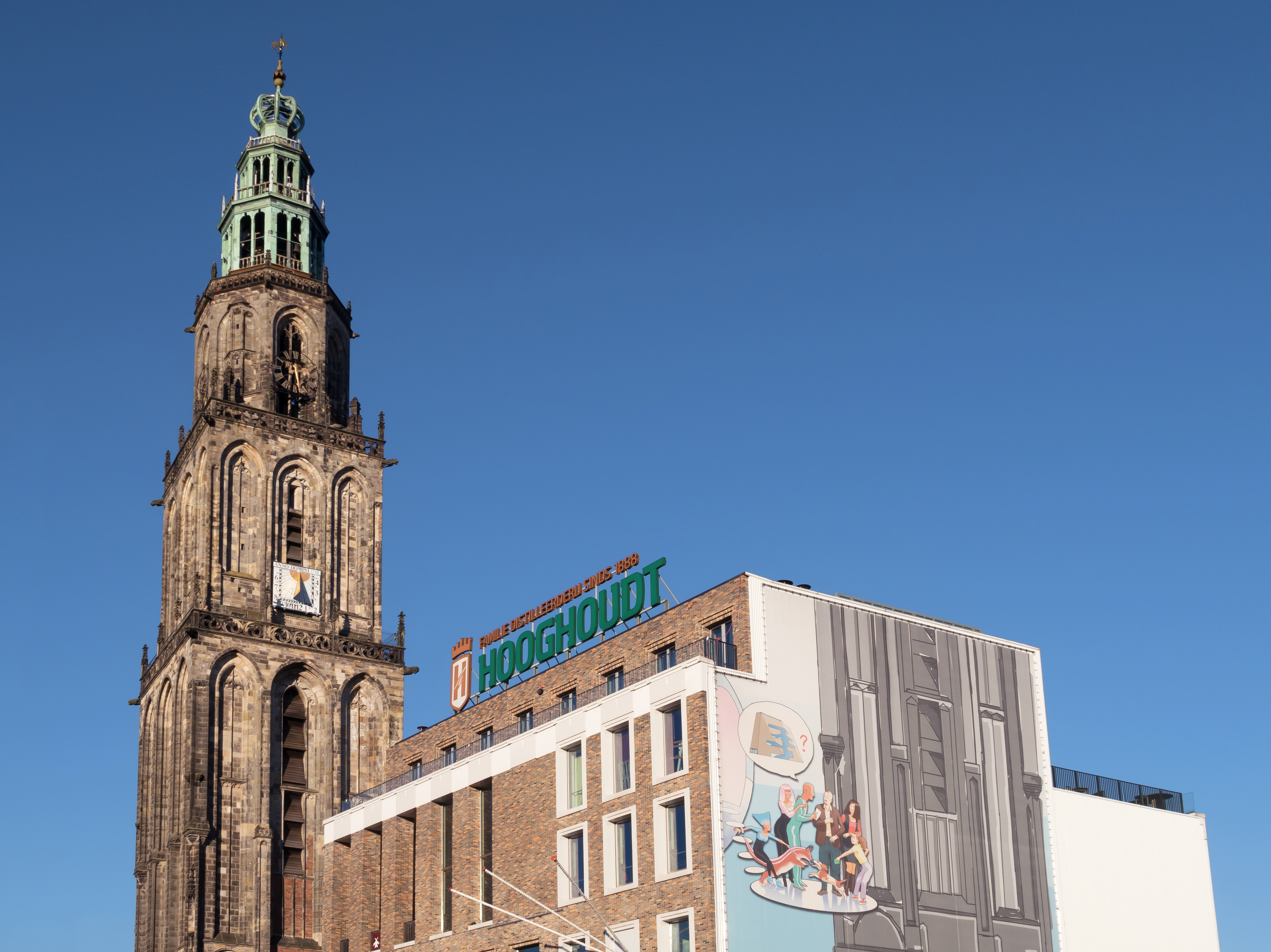 Groningen, Hooghoudt (distillery) near the naast de Martinitower